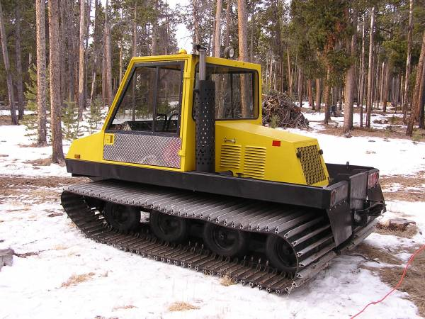 1990 Bombardier BR100+ trail groomer with aluminum track grousers.